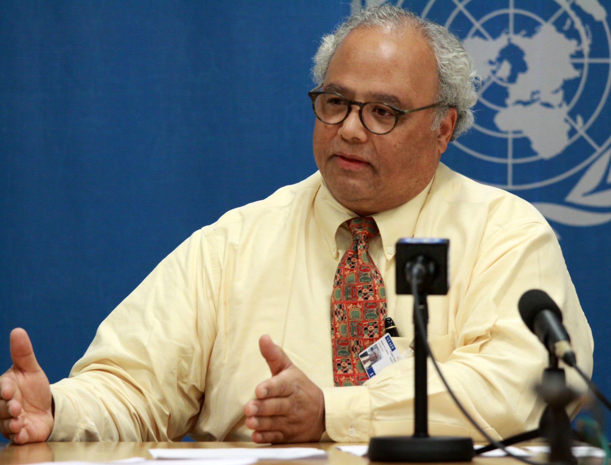 Dr. Eric Goosby, U.S. Global AIDS Coordinator, Speaking at a Press Conference at the United Nations Office in Geneva, December 11, 2009. U.S. Mission Photo: Eric Bridiers